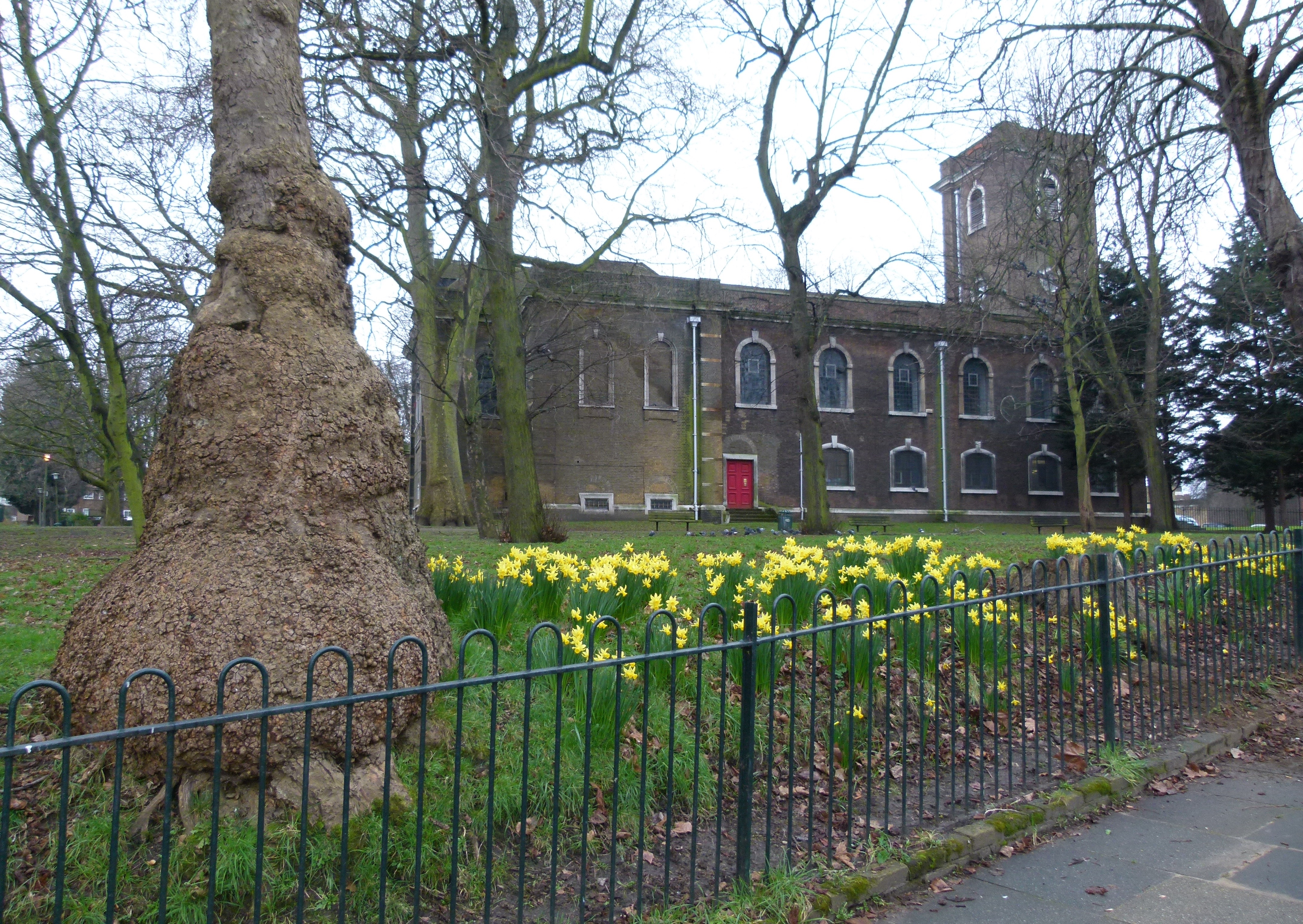 View of the parish church of St Mary Magdalene and St Mary's Gardens in Woolwich, southeast London, UK.